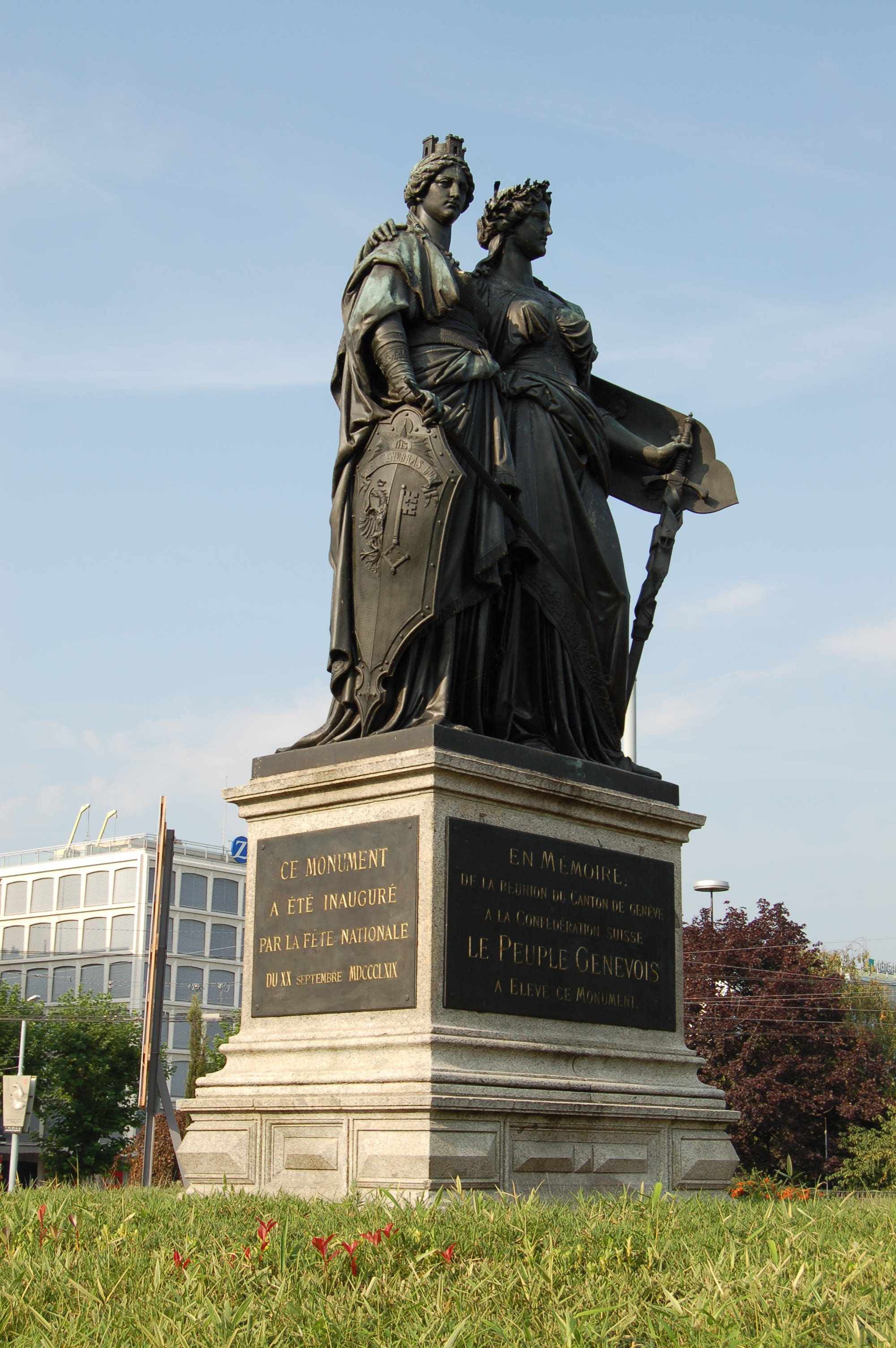 Robert Dorier: National munument in showing with the personifications of Geneva and Switzerland (Helvetia)